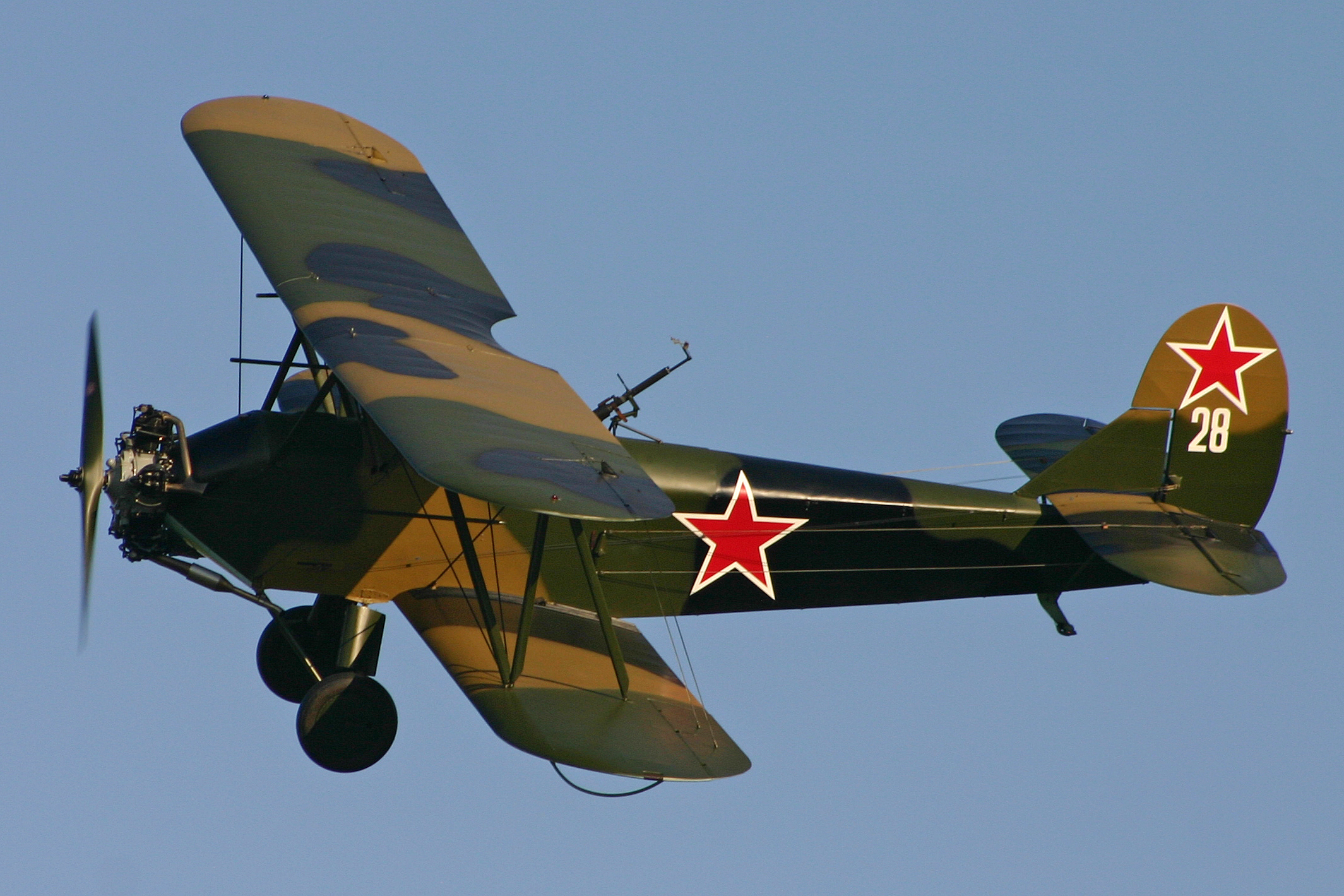 Actually a Polish built CSS-13, msn 0094. Displaying at Old Warden. 02-10-2011